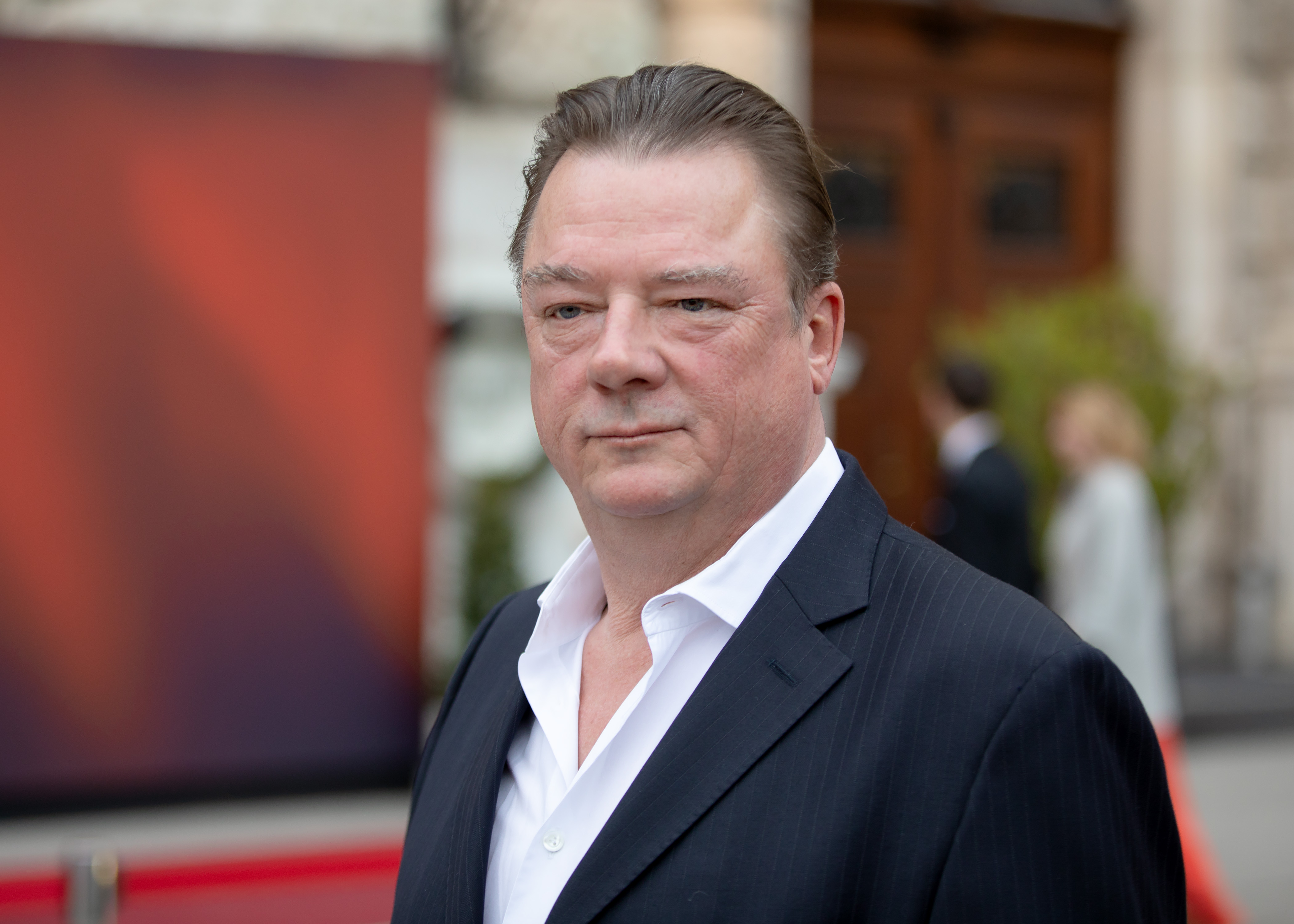 Peter Kurth on the red carpet of the Romy TV awards 2018 at Hofburg Palace in Vienna, Austria.